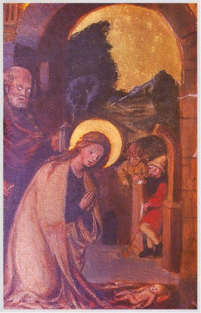 The painting of the birth of Christ to which was ascribed the victory of the imperial army against the protestants at the Battle of White Mountain 1620; now in the main altar of Santa Maria della Vittoria, Rome